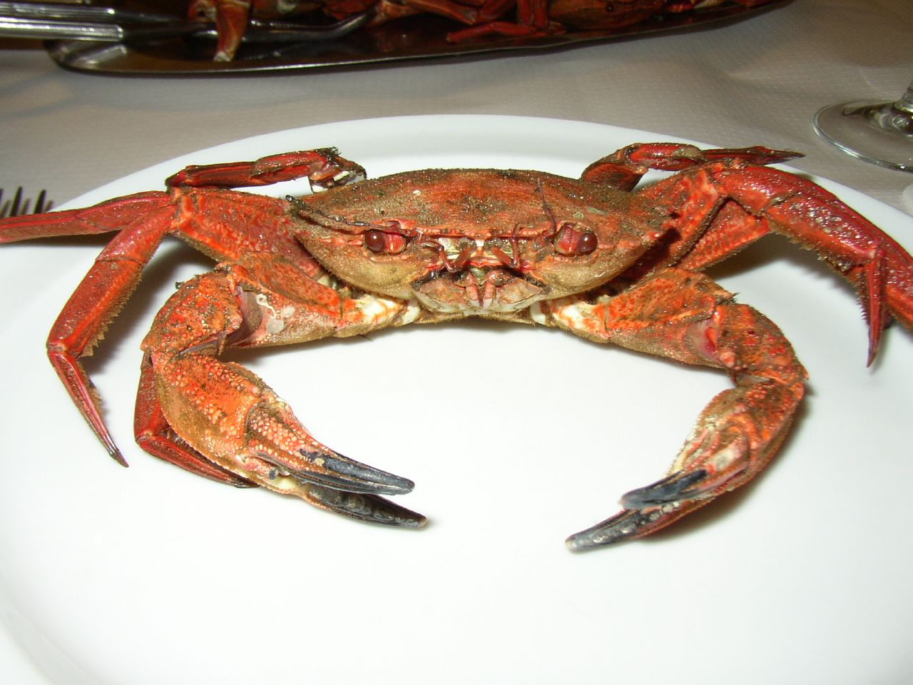 Cooked Velvet Swimming Crab (Necora puber).